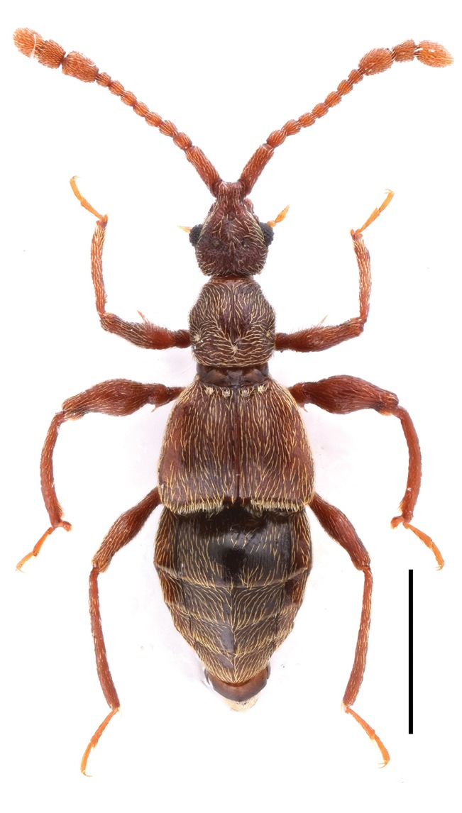 Male habitus of Pselaphodes tibialis. Scale: 1.0 mm.